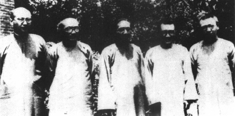 Hu Shih (2nd right) and the Board of Governors of the Public School of China (中国公学)